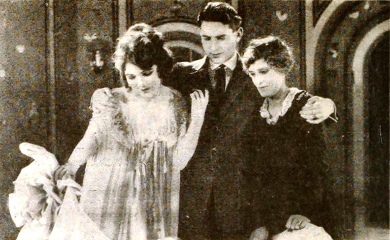 Still from the American silent film Mother o' Mine (1921) with Betty Ross Clarke, Lloyd Hughes, Claire McDowell, page 62 of the November 1921 Photoplay.